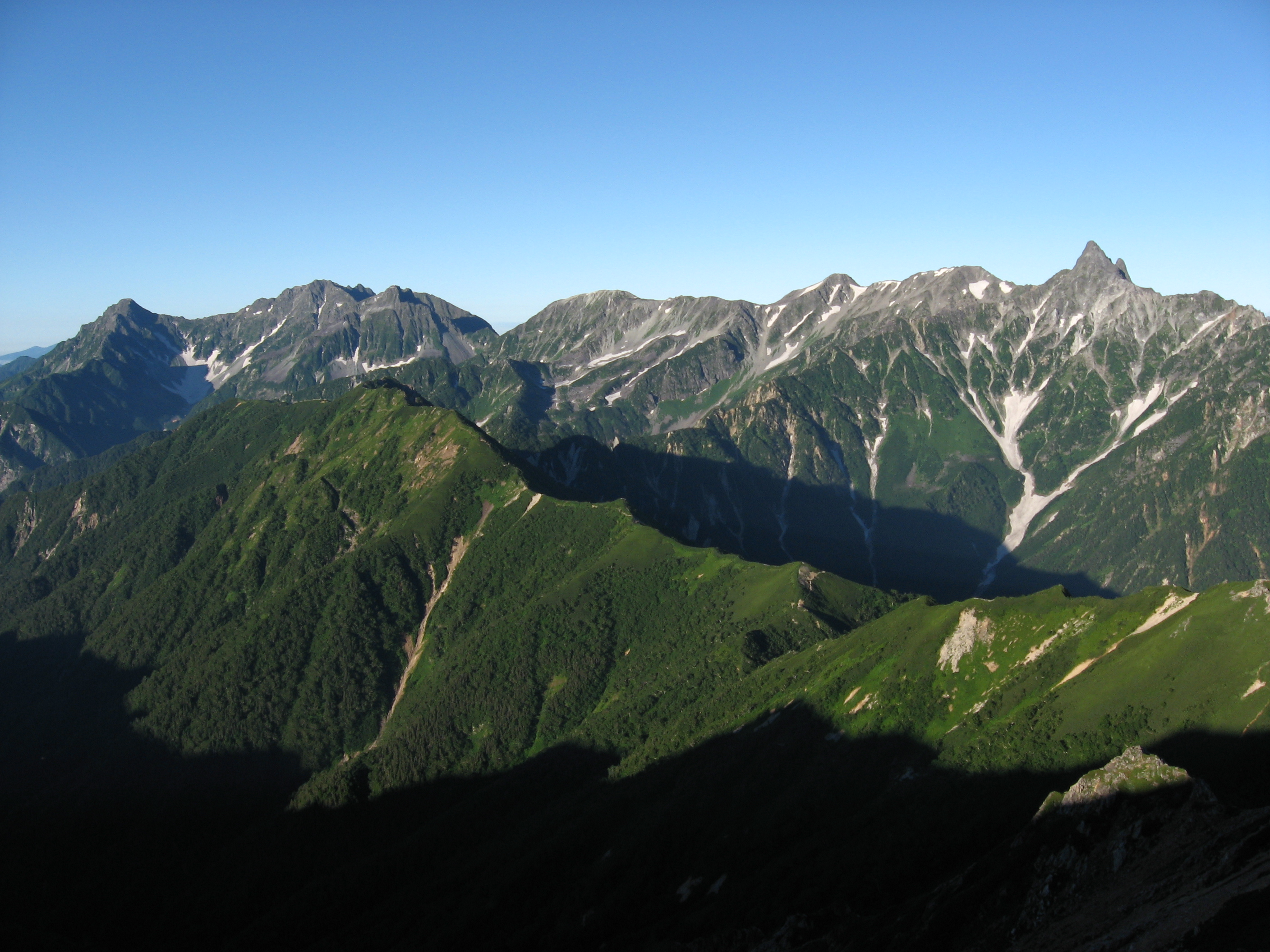 View of Mount Yari and Hotaka Mountains from Mount Otensho in the Hida Mountains, Japan